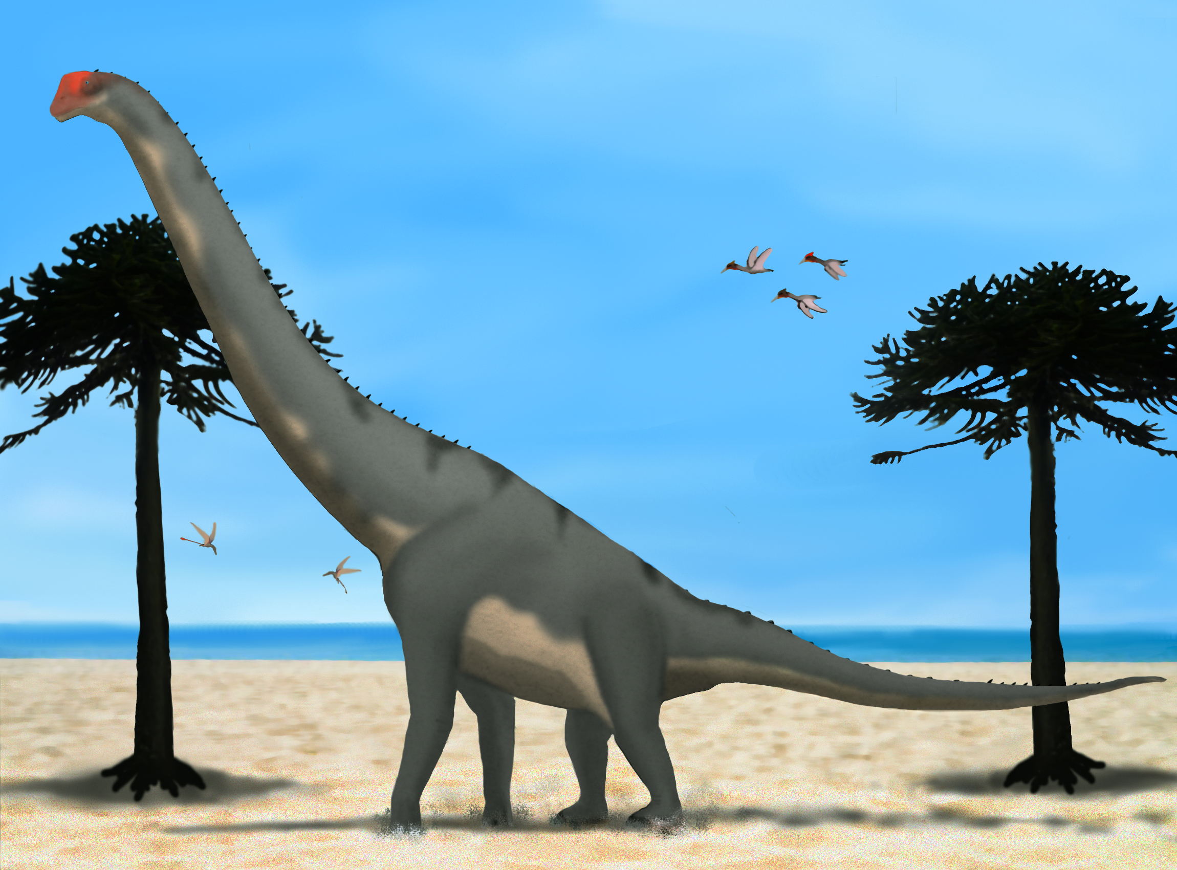 Hypothetical life restoration of Lusotitan, a Brachiosaurid from the late Jurassic of Europe. The body is based on Scott Hartman's Giraffatitan skeletal drawing [1] and Nima Sassani's Lusotitan skeletal drawing [2], used with permission. The skull is based on Brachiosaurus and Giraffatitan.